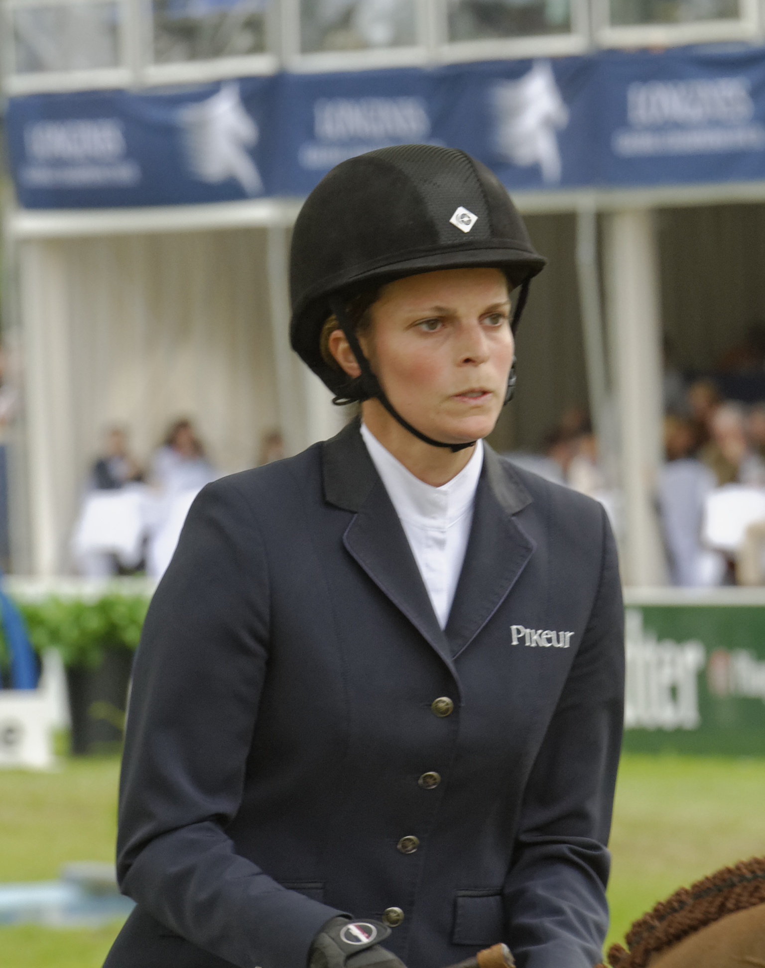 Internationales Pfingstturnier Wiesbaden 2013 The making of this document was supported by the Community-Budget of Wikimedia Germany.